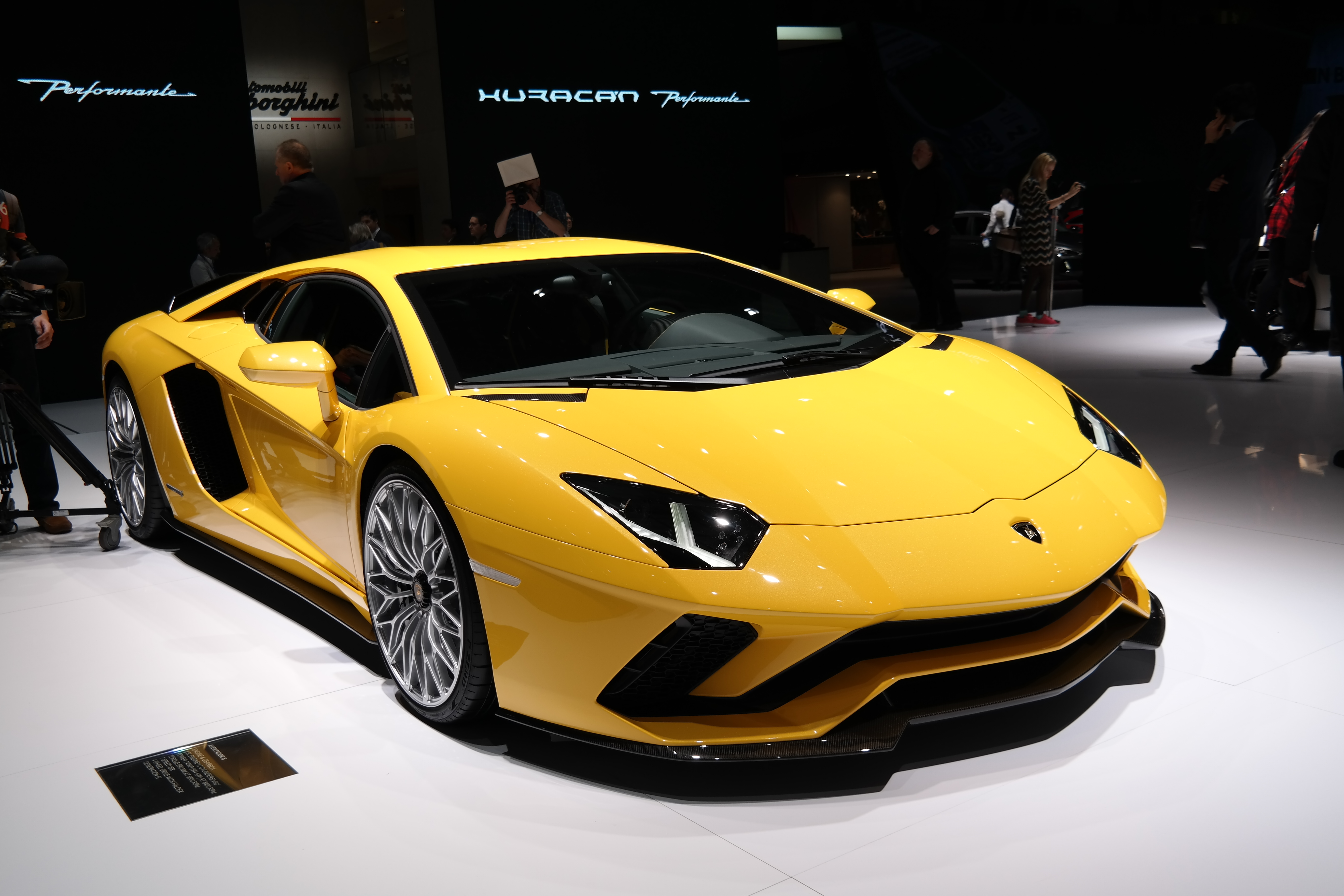 Geneva Motor Show 2017 (photo taken on the first press day)